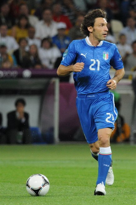 Andrea Pirlo at Euro 2012 match against England